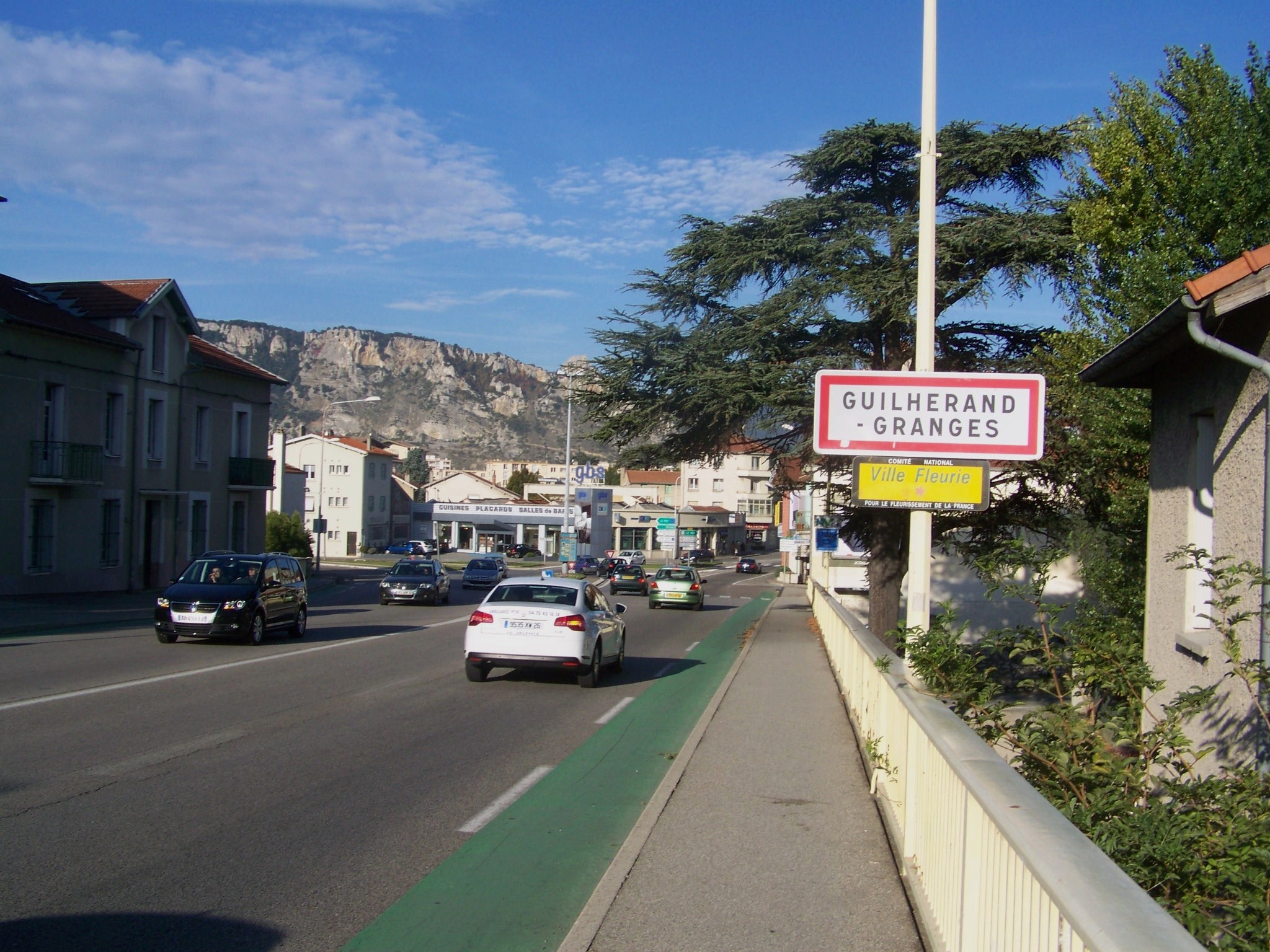 Sign welcoming visitors to the French commune of Guilherand-Granges while leaving the city of Valence, in the department of Ardèche.